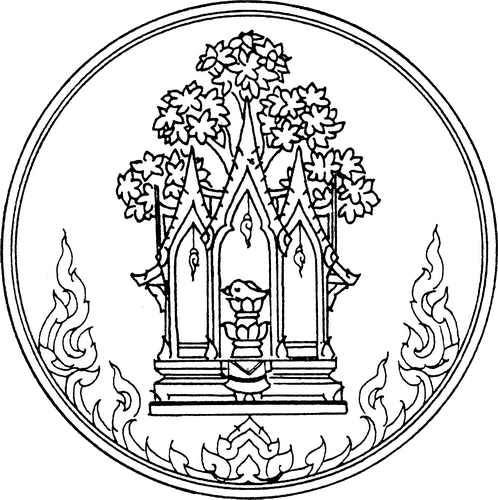 Provincial seal of Ayutthaya province.